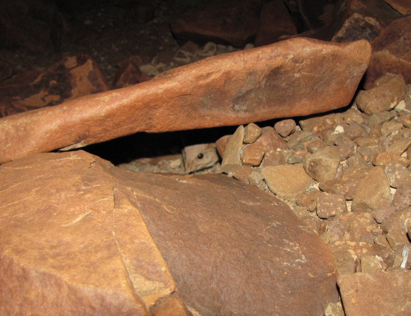 Sengi #4947M at the opening of a typical rock shelter on 25 Oct 2014 at 2351 h.